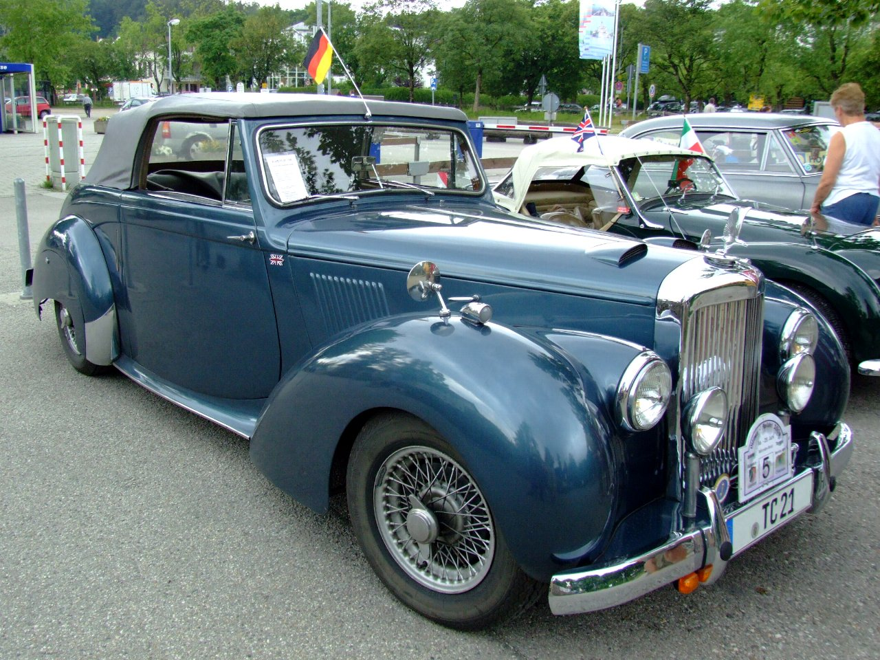 Tickford Drophead Coupe Bj.: 1954 6 Zylinder in Reihe 3000ccm 100 PS 160 km/h